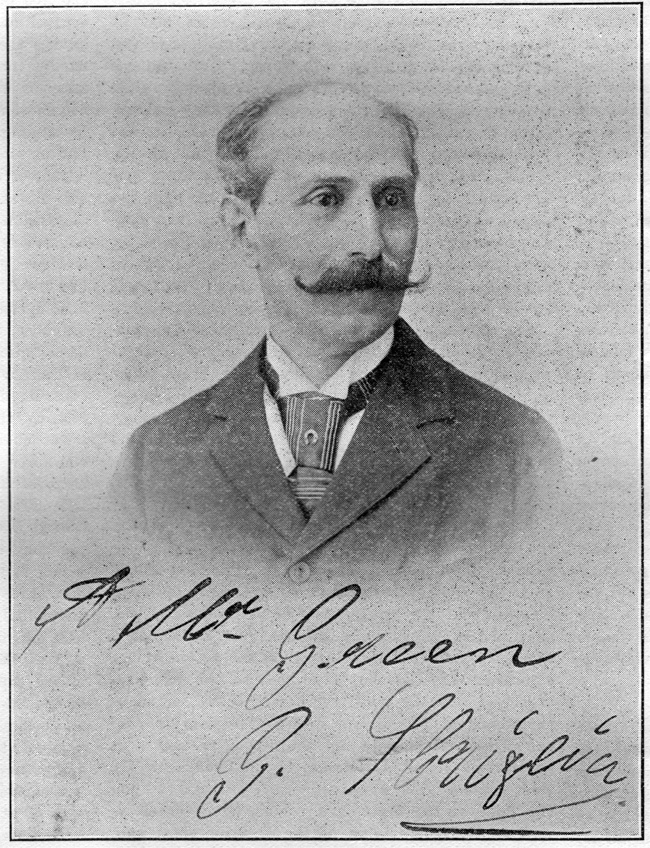 Portrait of Italian/French vocal pedagogue Giovanni Sbriglia between age 60 and 70